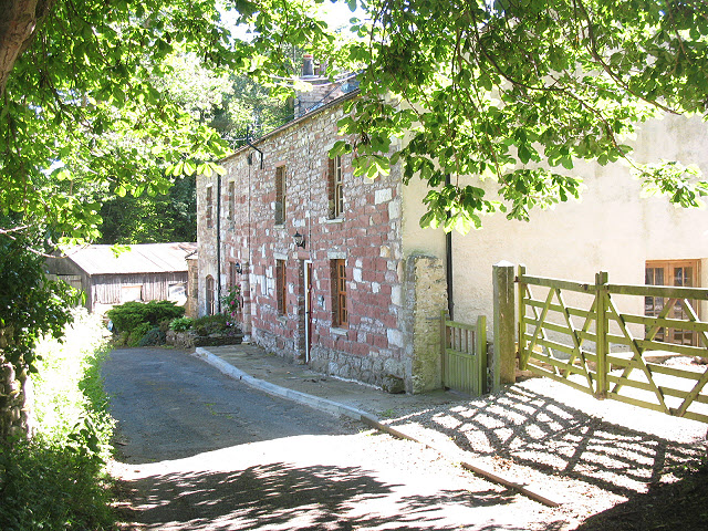 Houses in Hartley village